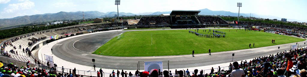 A football match in Imam Khomeini Football Stadium in Arak.